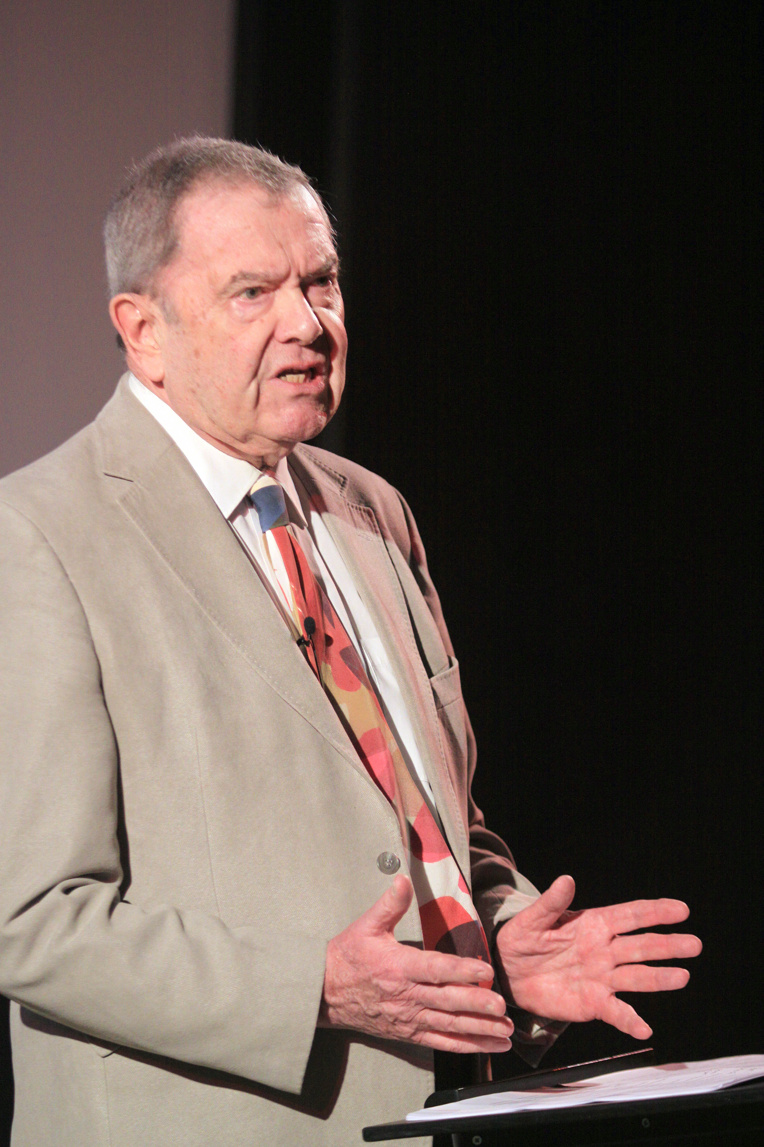 Politics Professor Anthony King talks on 'The Blunders of our Governments' for the Essex Book Festival 2014